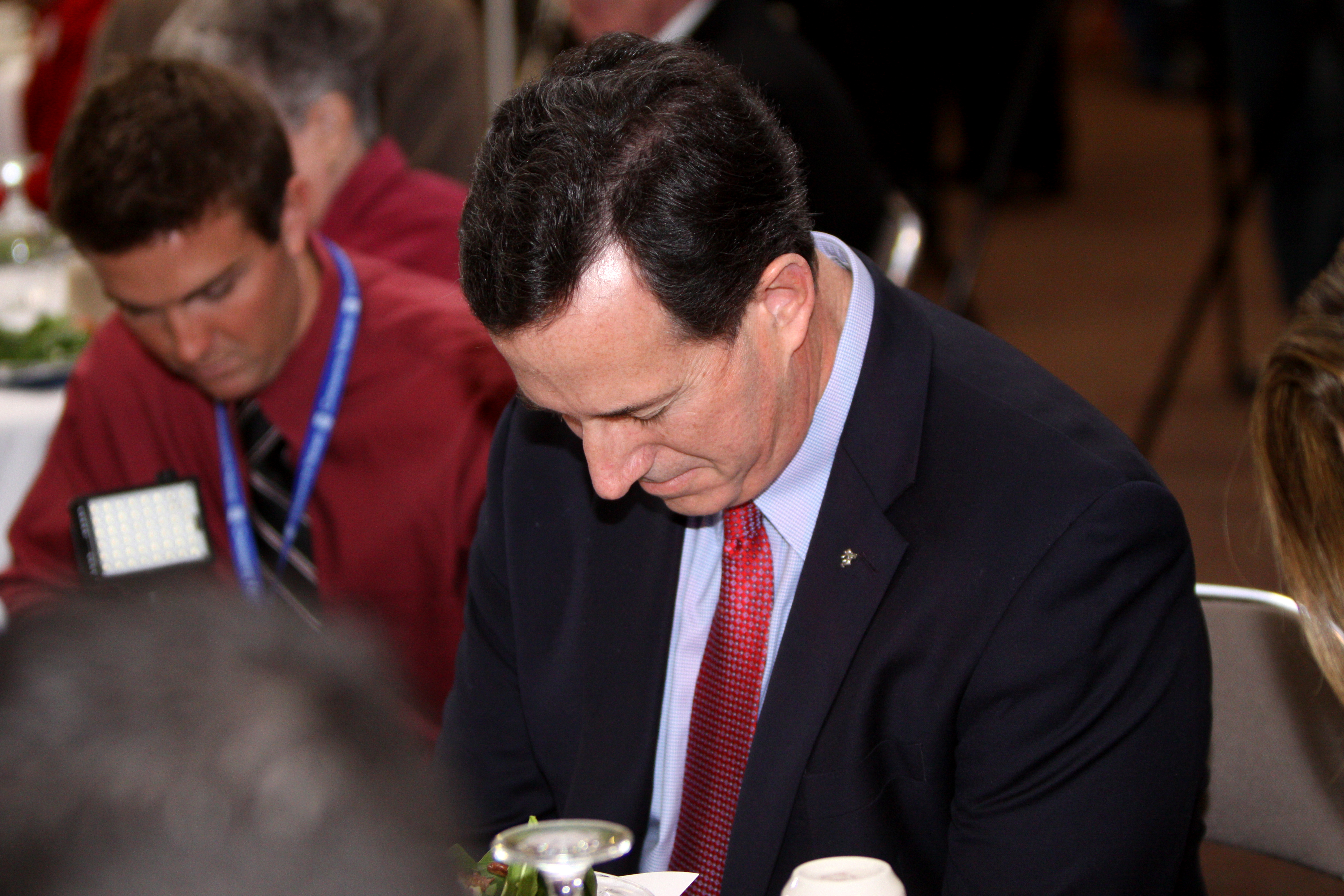 Rick Santorum lowering his head to pray at an Arizona Republican Party fundraiser in Phoenix, Arizona.